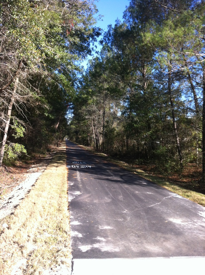 Eastern view of Palatka-Lake Butler Trail looking from Florahome post office.